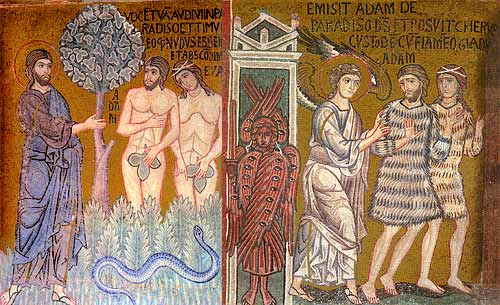 The Lord Confronts the Disobedience of Adam & Eve; The Expulsion from Paradise Nave Mosaics from Palatine Chapel, Palermo, Sicily. Mid 12th Century.